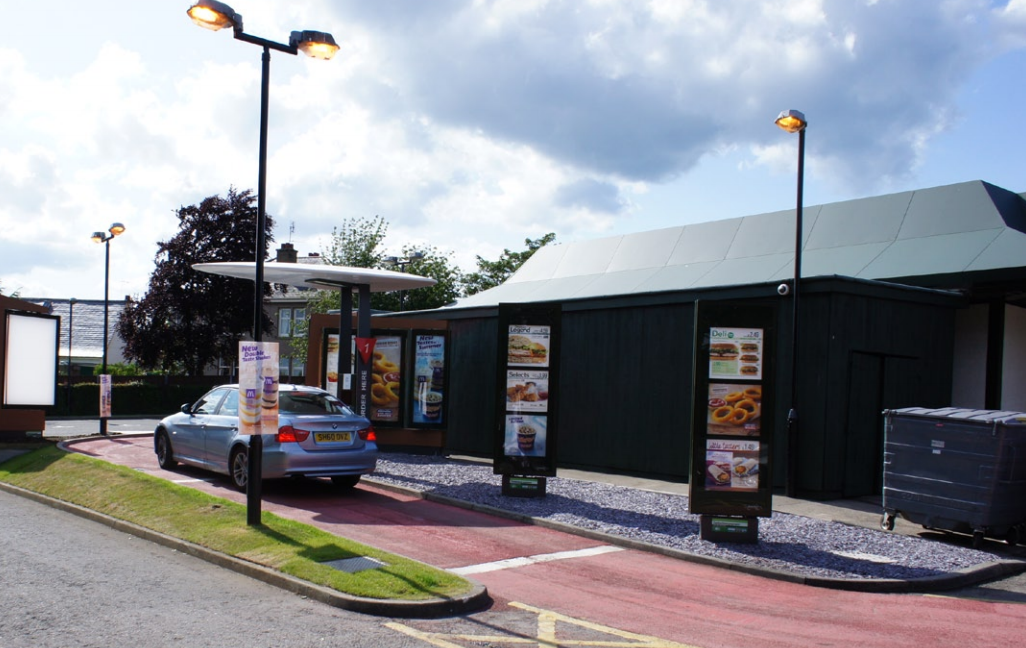 Drive thru intercom and menus